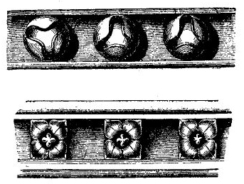 Ball-flower ornament characteristic of the Decorative English Gothic style